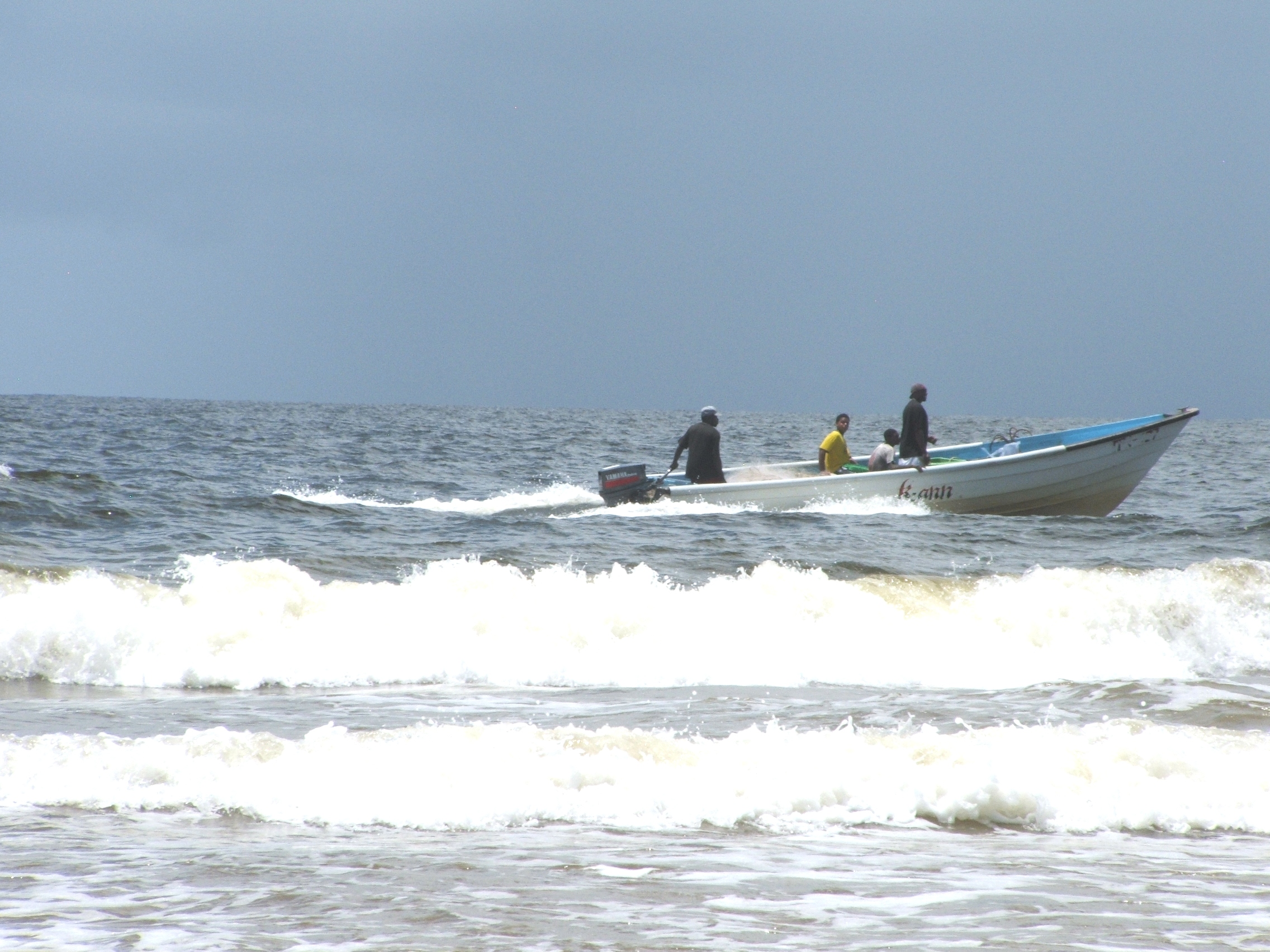 Fishing boat goes out to sea at Mayaro Bay, Trinidad and Tobago on the east coast of the island in the Atlantic Ocean.